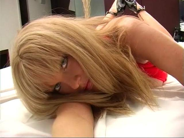 This is a picture of playmate Kathy Ann Shower, which I took/created and have full permission to use publically.